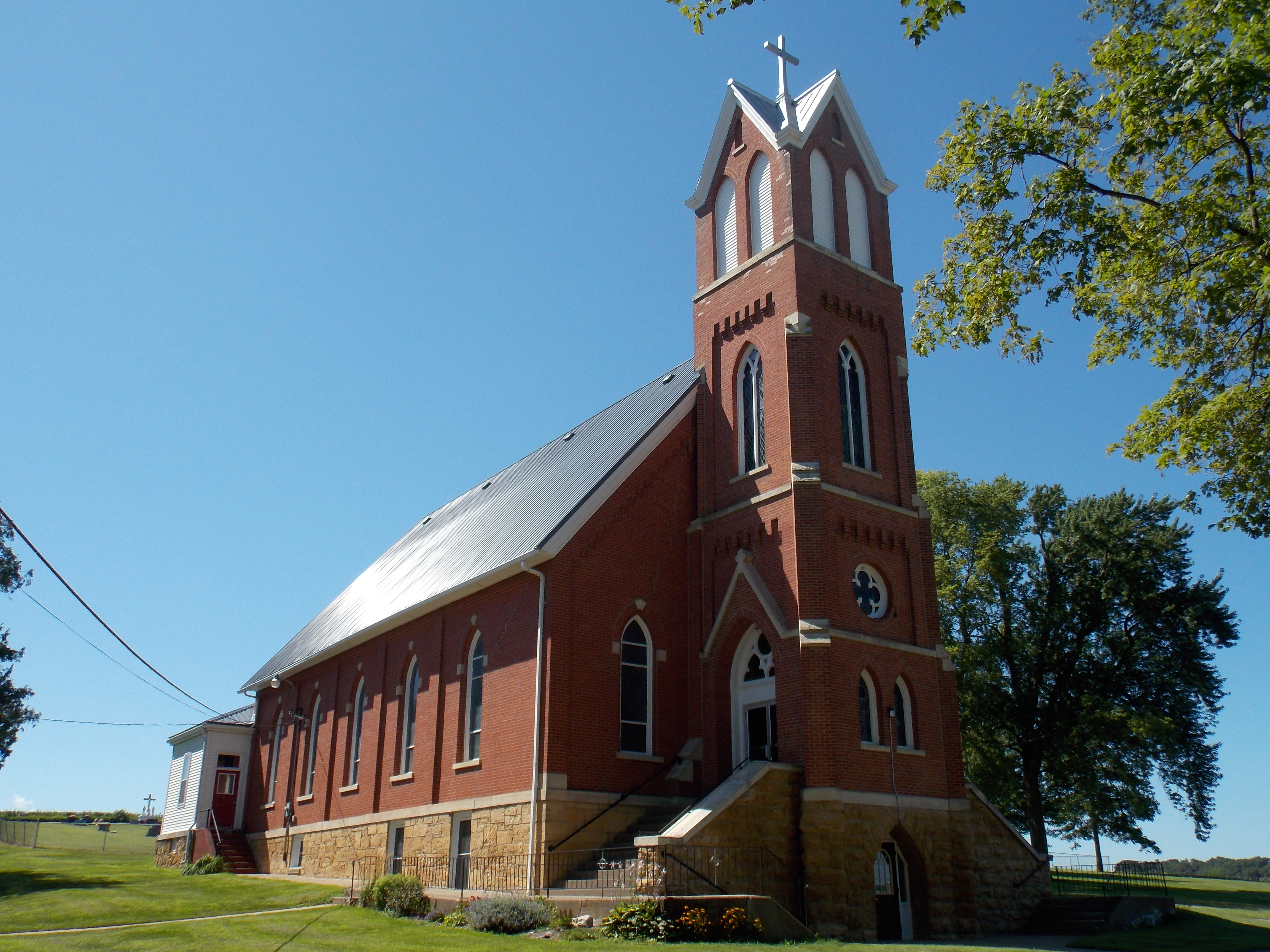 Assumption Catholic Church in Charlotte, Iowa.